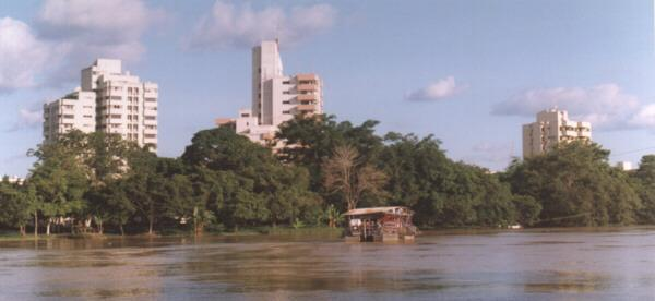 Montería city seen by the left side of the Sinú river.